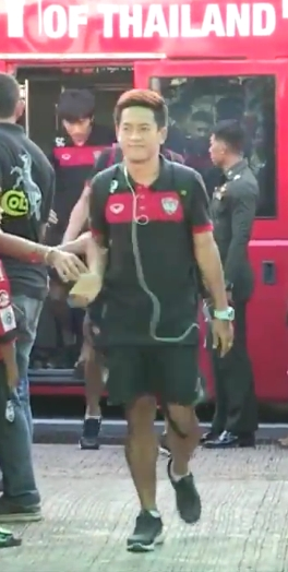 Jakkraphan Pornsai before game Thai Premier League Ostospa Saraburi - Muangthong United